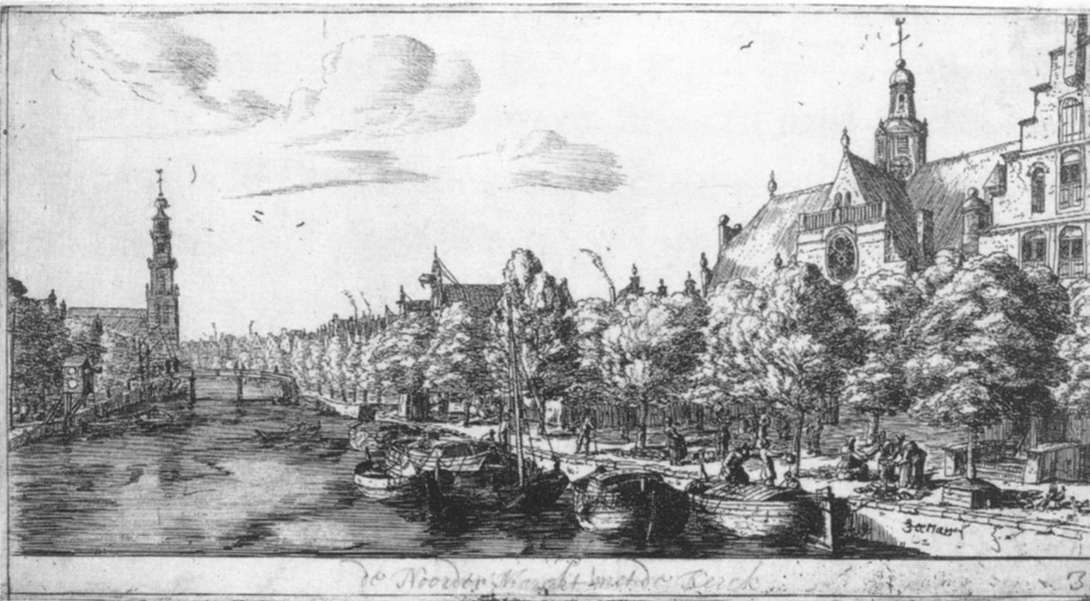 Part of the series {name }.